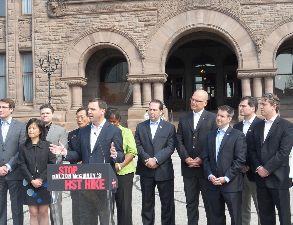 Tim Hudak teling the media that 70 of our candidates and MPPs are visiting 70 communities and 91 ridings to spread the message: Dalton McGuinty will raise our taxes